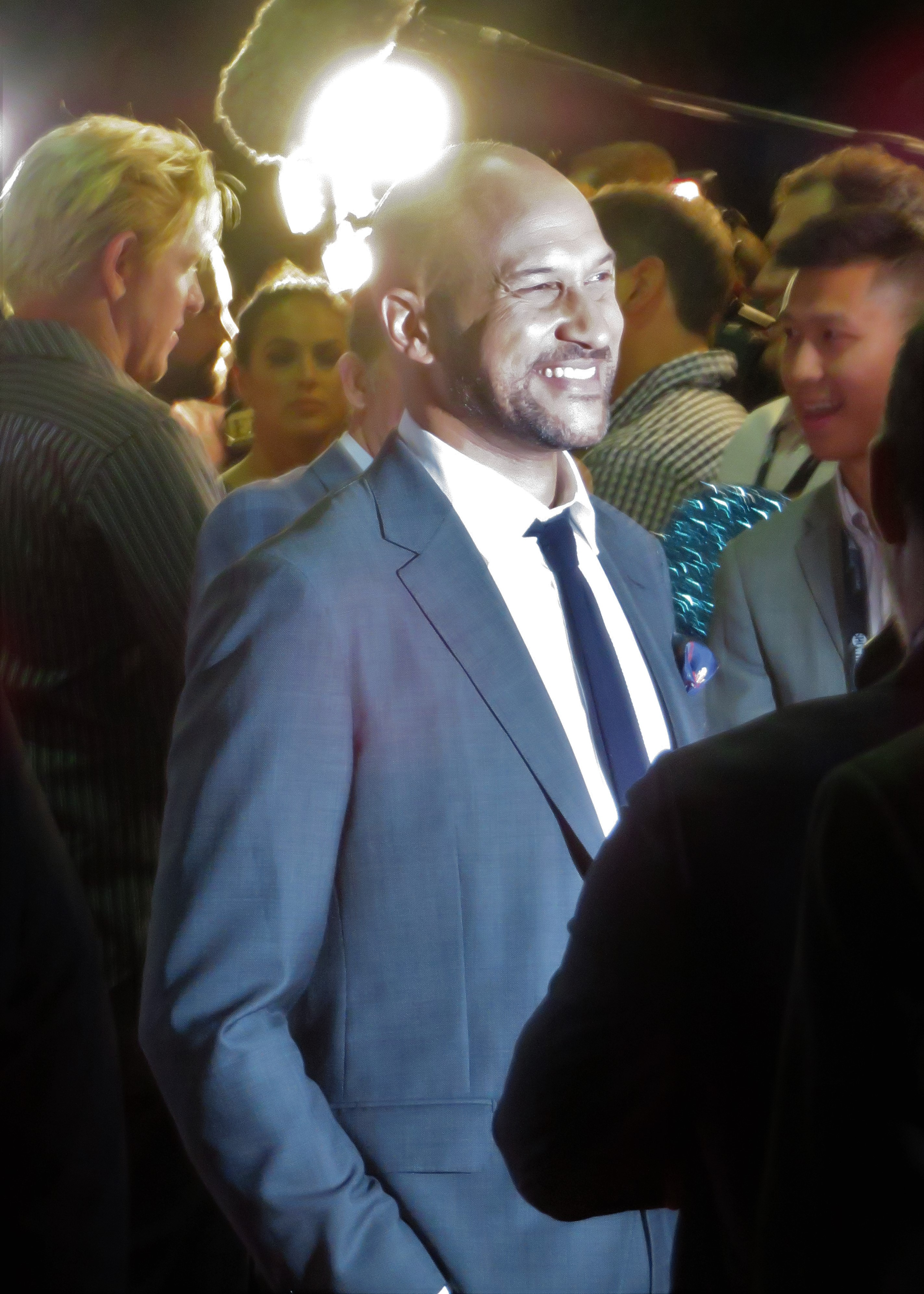 Keegan-Michael Key at the premiere of The Predator, 2018 Toronto Film Festival.